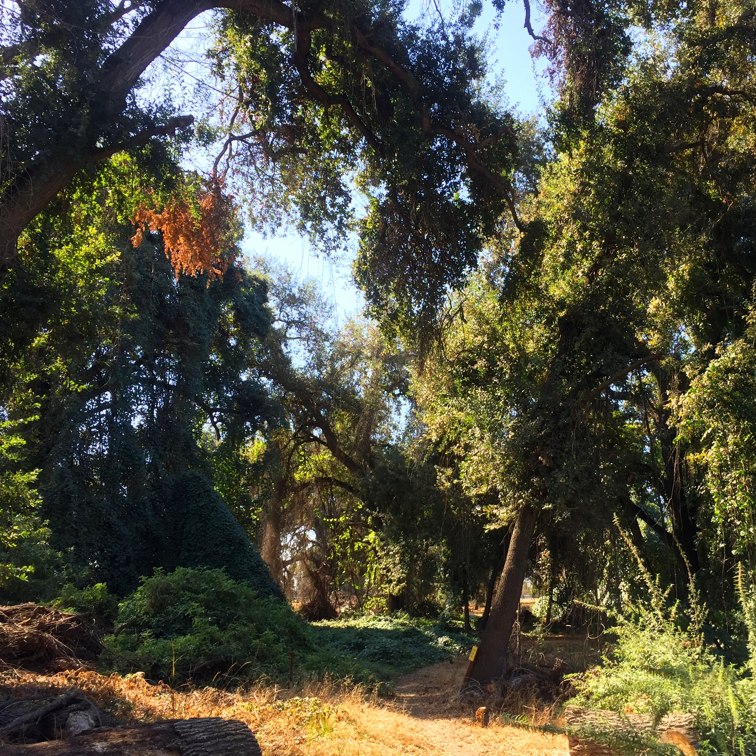 Kaweah Oaks preserve, just east of Visalia, a remnant of the once extensive Valley oak forest on the Kaweah delta.